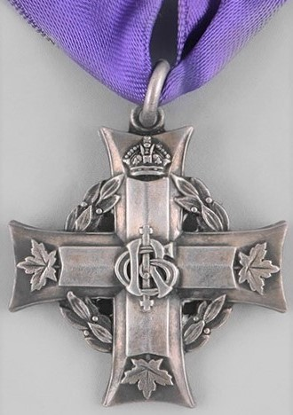 Memorial Cross (Croix du Souvenir), Canadian medal for next of kin of Canadian Service personnel who lose their life on active service. World War I version with GRI cypher.